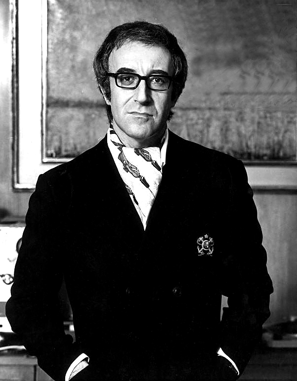 Publicity photo of Peter Sellers, with annotated signature.